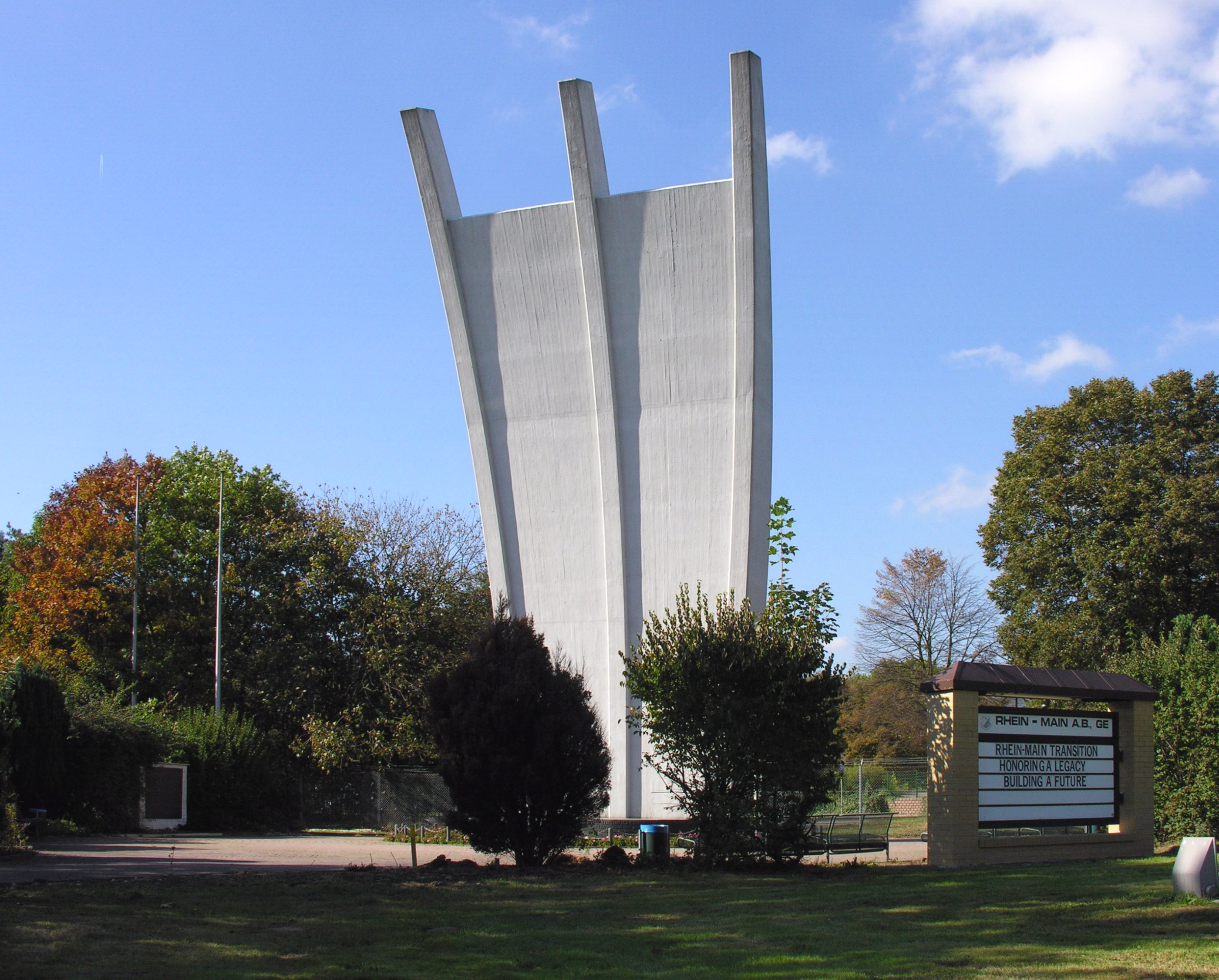 Airlift Memorial (remembering air lift 1948/49) as a copy of Berlin Airlift Memorial was built in 1985 on the advanced landing ground "US Rhein-Main Air Base Gateway to Europe Germany" (RM AB GE). Handover to German government (to Fraport Frankfurt Airport) occured per Dec. 31st, 2005 - Foto 2007 Wolfgang Pehlemann Steinberg Ostsee DSCN268